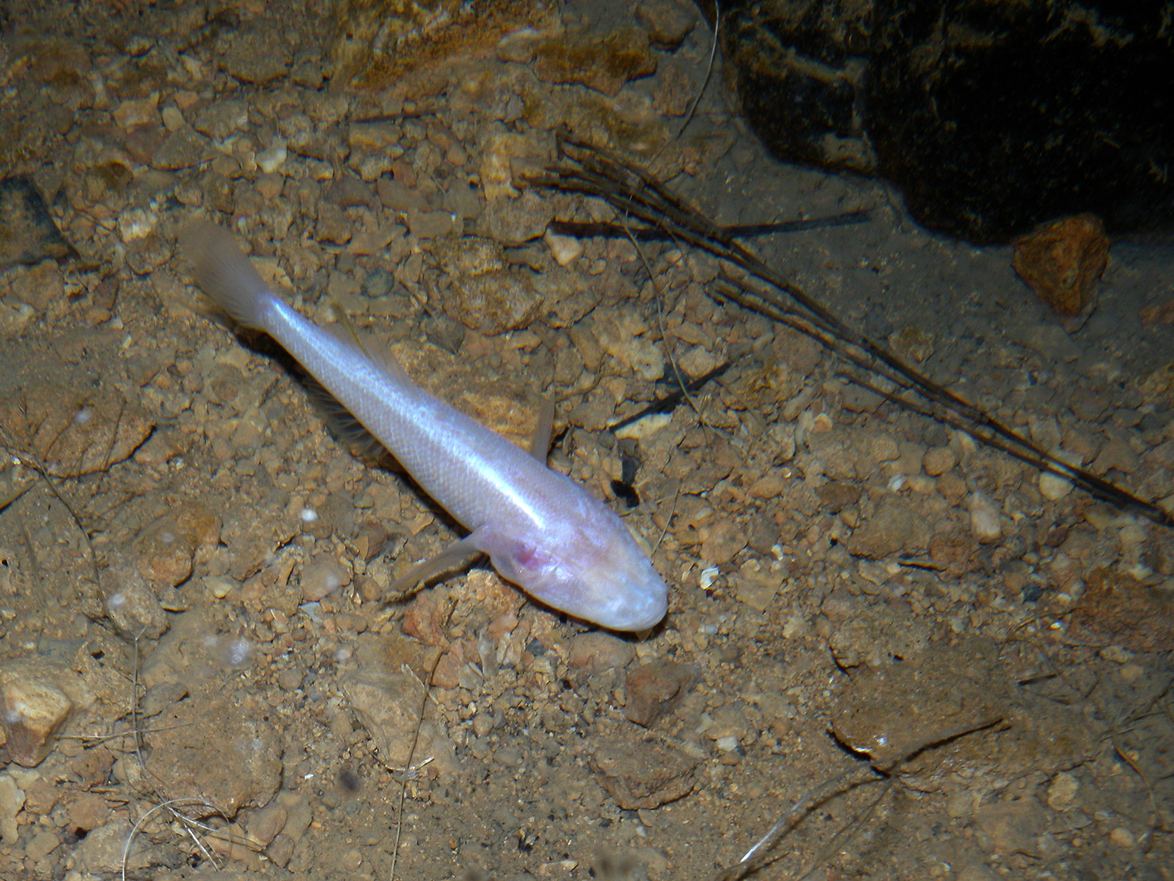 Typhleotris madagascariensis, blind cave fish, Tsimanampetsotsa, Madagascar.